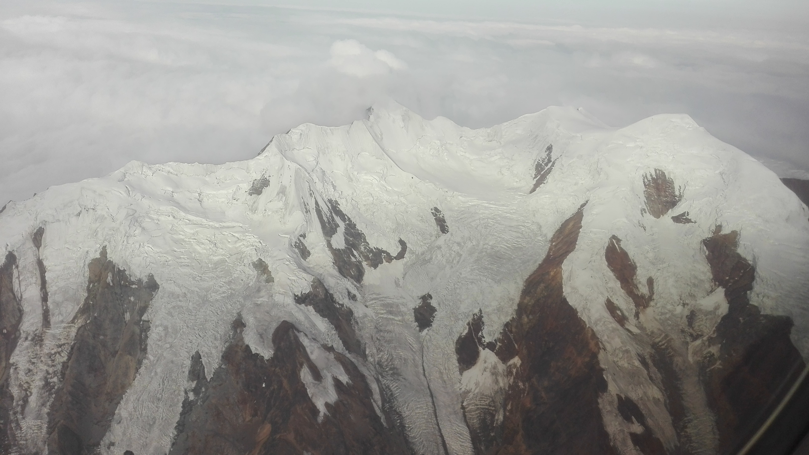 Illimani´s Picture that was taken from a plane